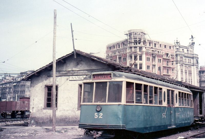 Train in Amara station